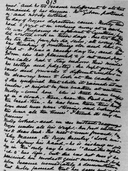 One of the final pages from the manuscript for Wives and Daughters (The Works of Mrs. Gaskell, Knutsford Edition)